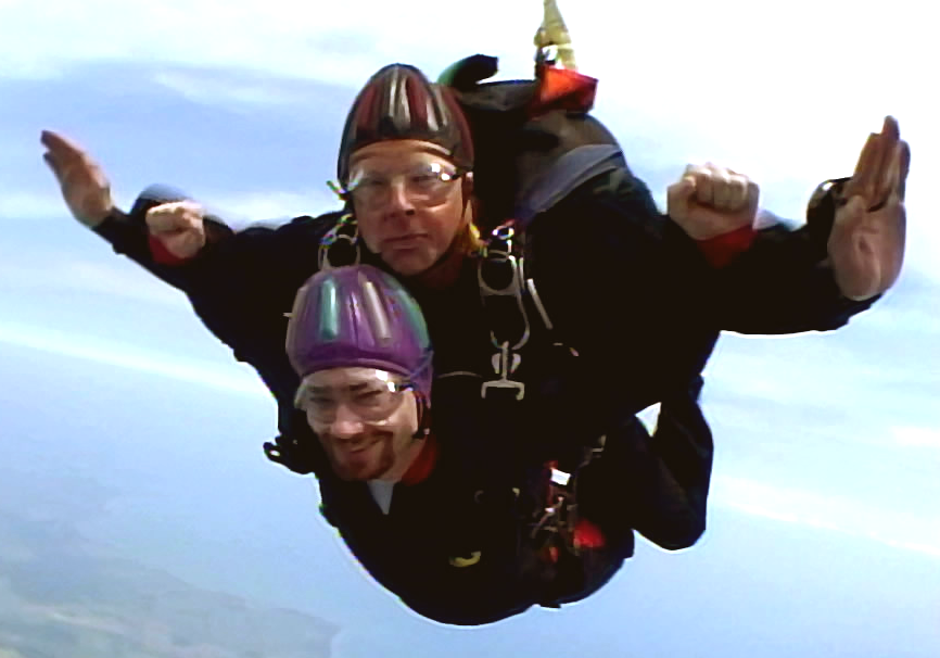 Image of a tandem skydive.